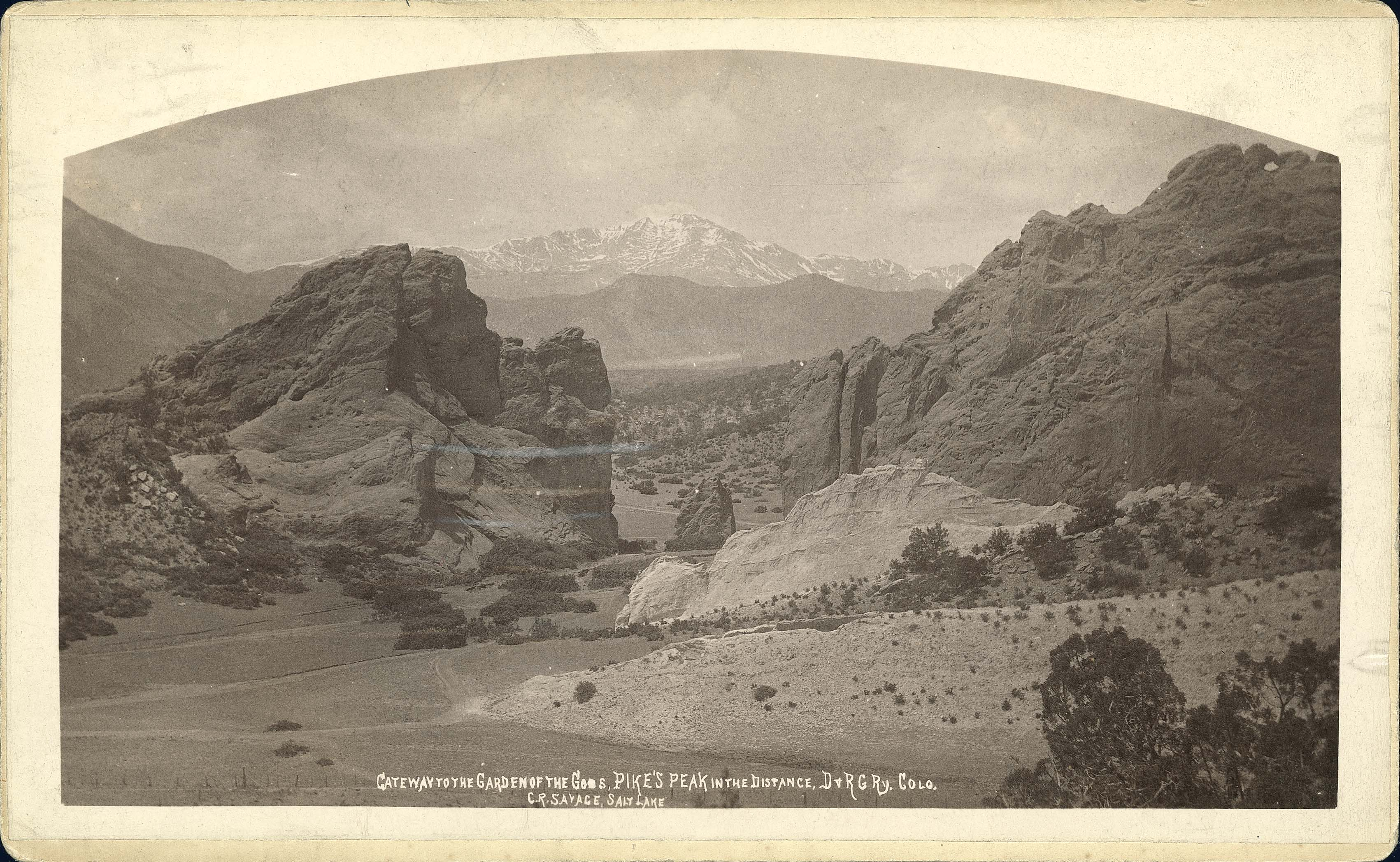 A scenic view of a pass through bluffs with snowcapped mountains in the background. Back label- C.R. Savage, Art Bazar...Medals...1891.A scenic vi